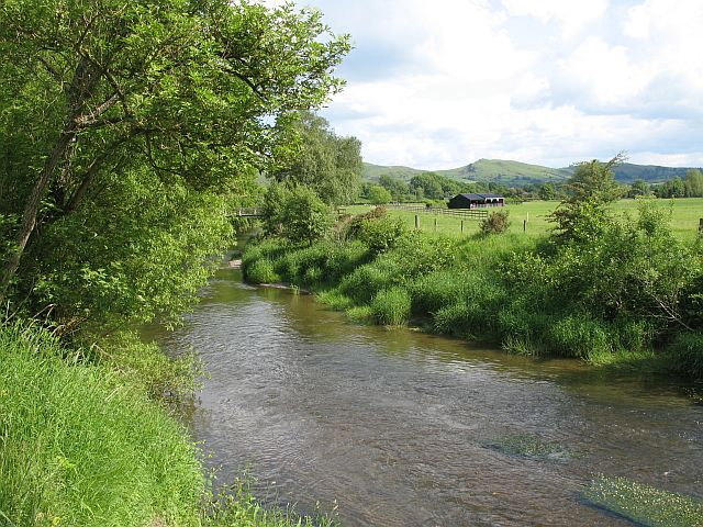 The Ithon, Pen-y-bont Taken while having tea at the excellent Thomas Shop museum. View downstream towards the race course.